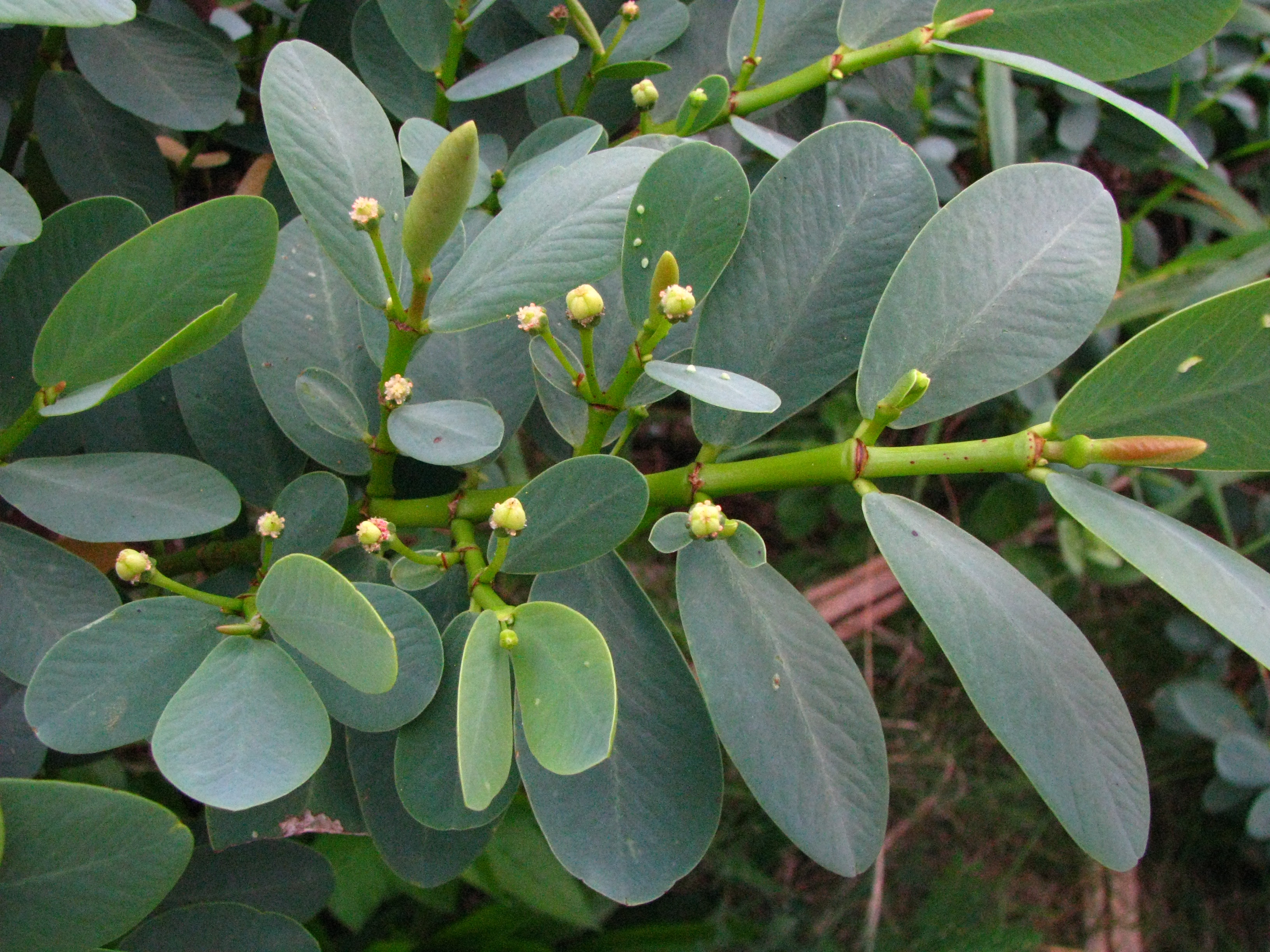 ʻAkoko, ʻekoko, koko, or kōkōmālei Euphorbiaceae Endemic to the Hawaiian Islands Kīlauea Lighthouse, Kīlauea Point National Wildlife Refuge, Kauaʻi